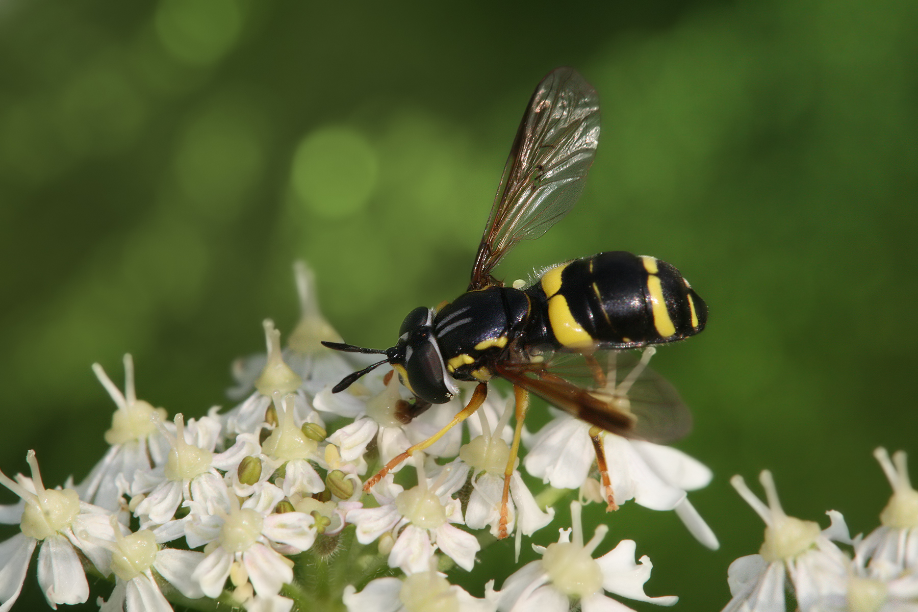 Description: Hooverfly Chrysotoxum_bicinctum